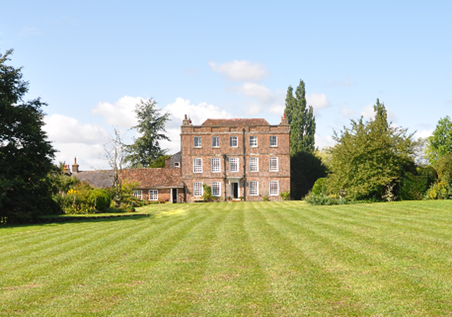 Eggington House Hotel, Bedfordshire